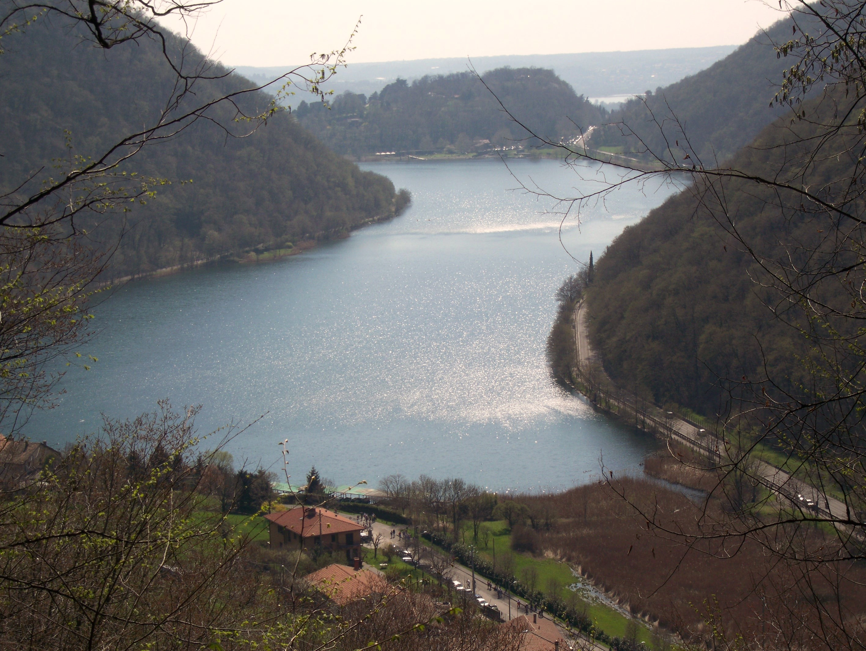 Lake Segrino in April 2013